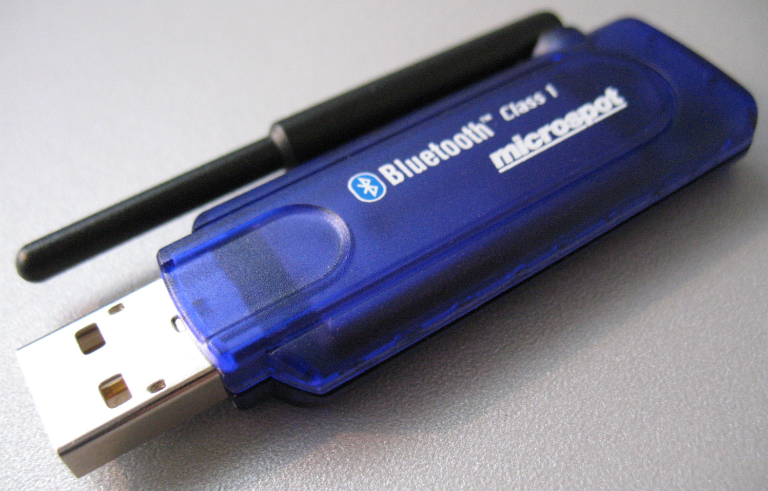 Adaptateur USB Bluetooth